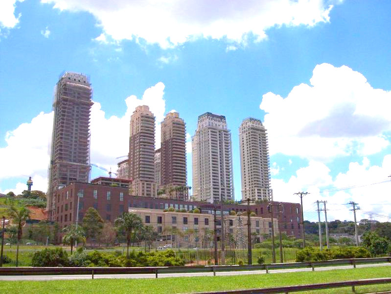 Shopping Cidade Jardim in São Paulo City.